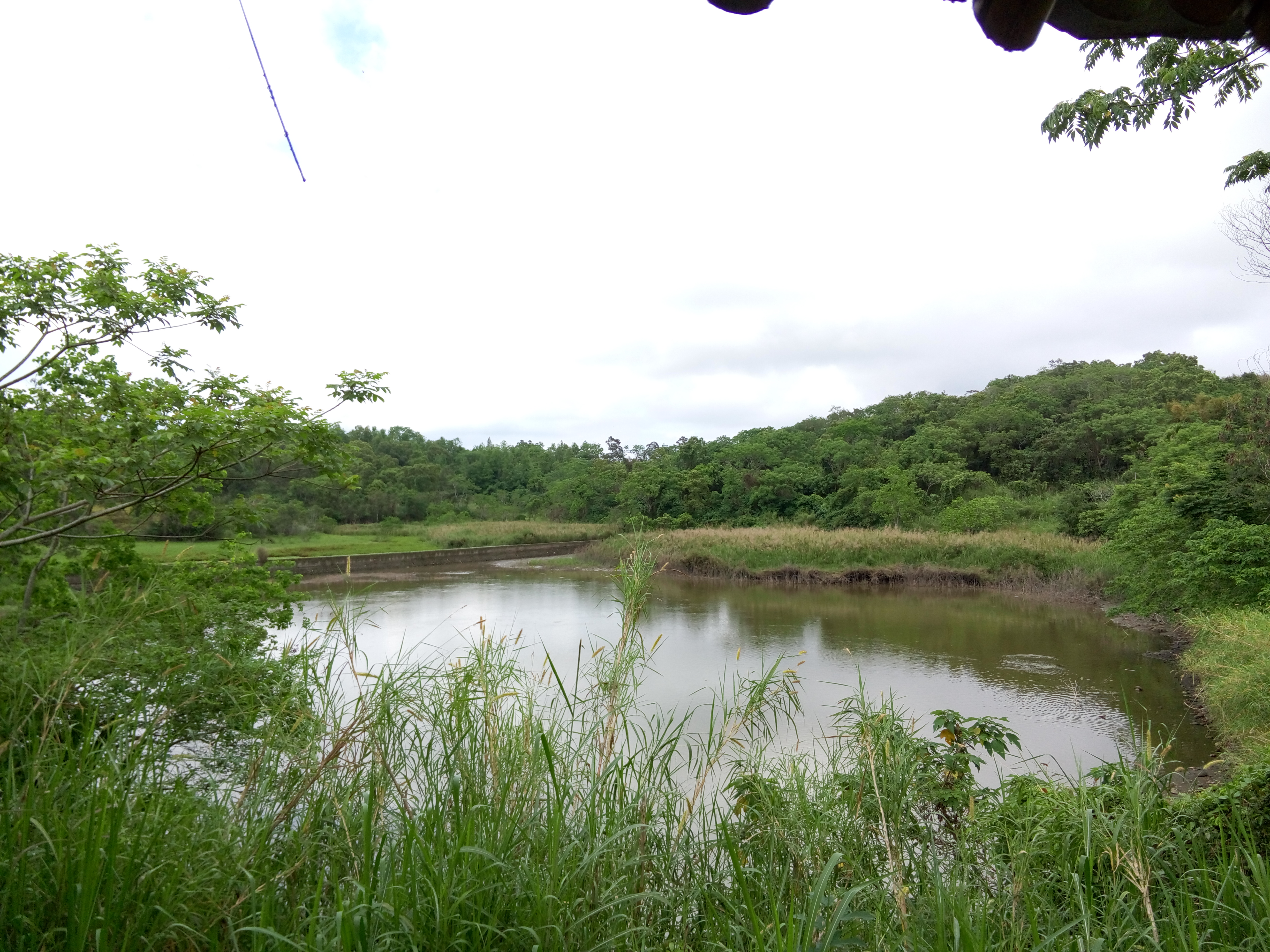 Taiwan(R.O.C) Wetland of Importance Conservation Program-Luanshan Lake Wetland in Taitung County